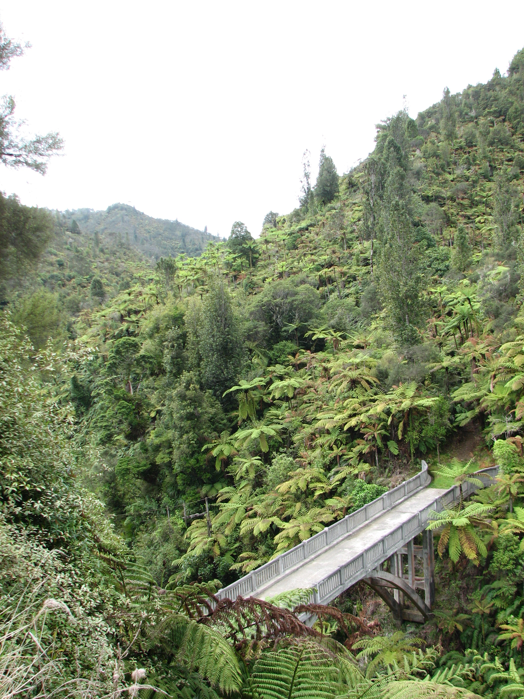 Bridge to Nowhere, Whanganui National Park, New Zealand. The fern trees are most probably mamaku (Cyathea medullaris).